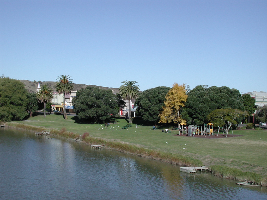 Wairoa riverbank viewed from SH2 bridge over Wairoa River.